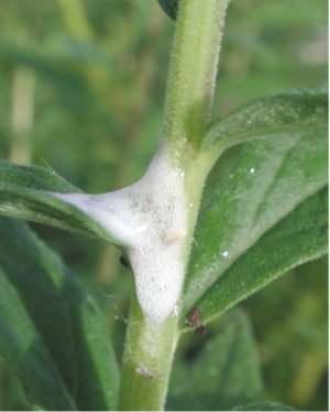 Spittlebug, larval form